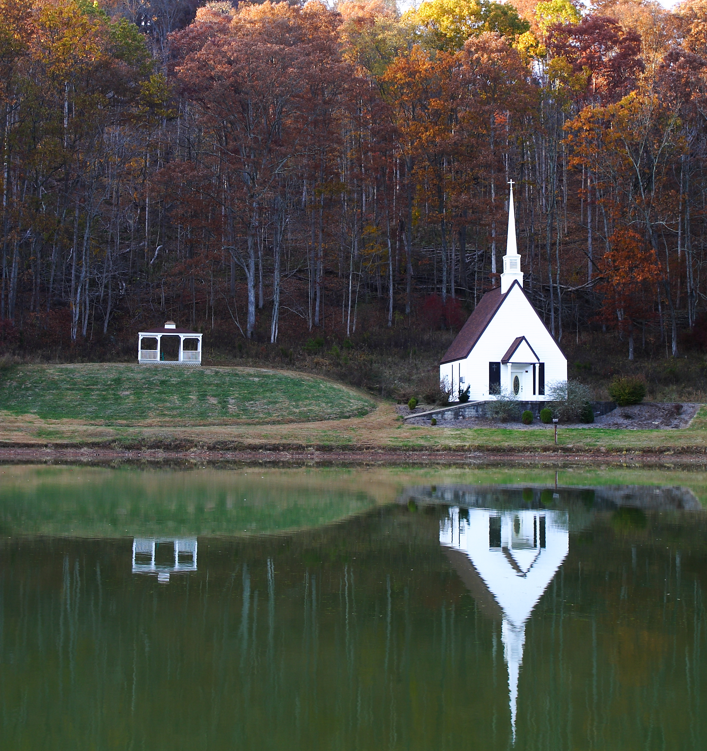 The water reflected Rippling Waters Church of God in Kenna, West Virginia in autumn.